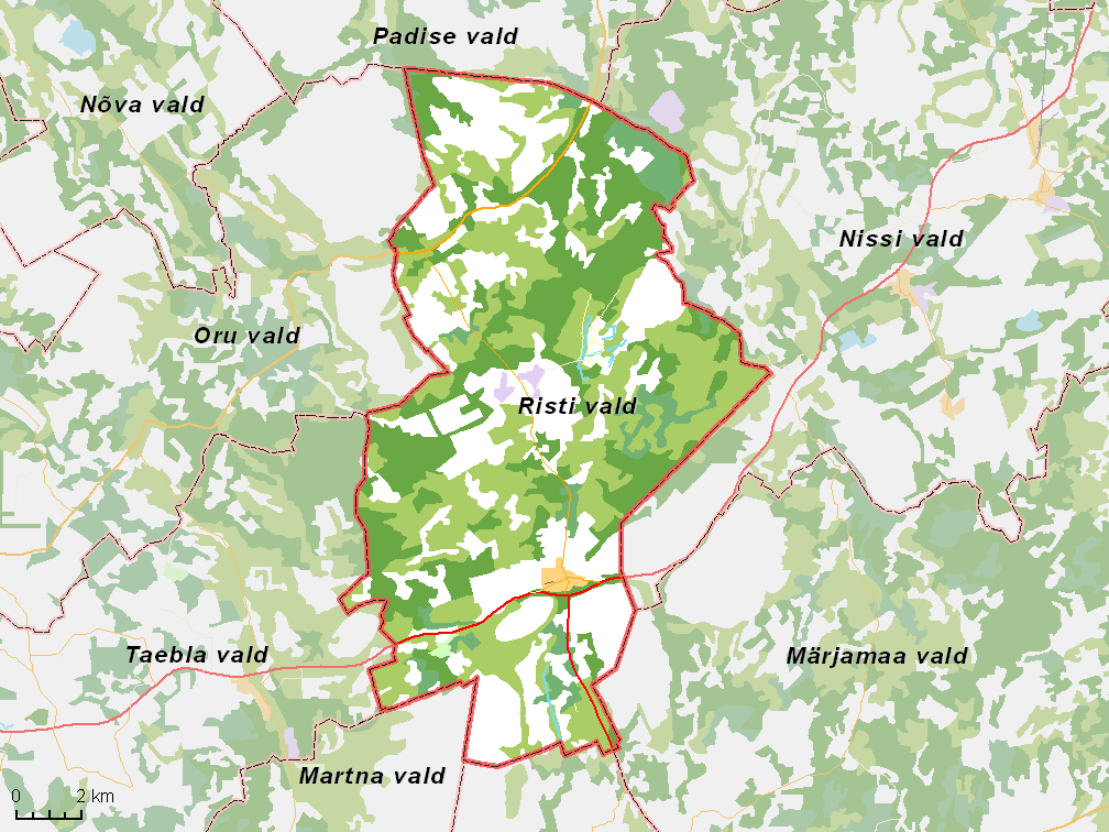 Map of municipality in Estonia